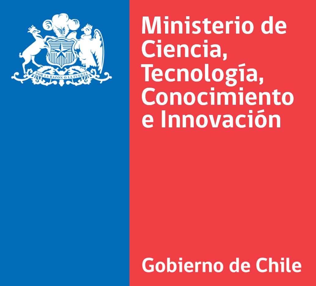 Ministry of Science, Technology, Knowledge and Innovation of Chile